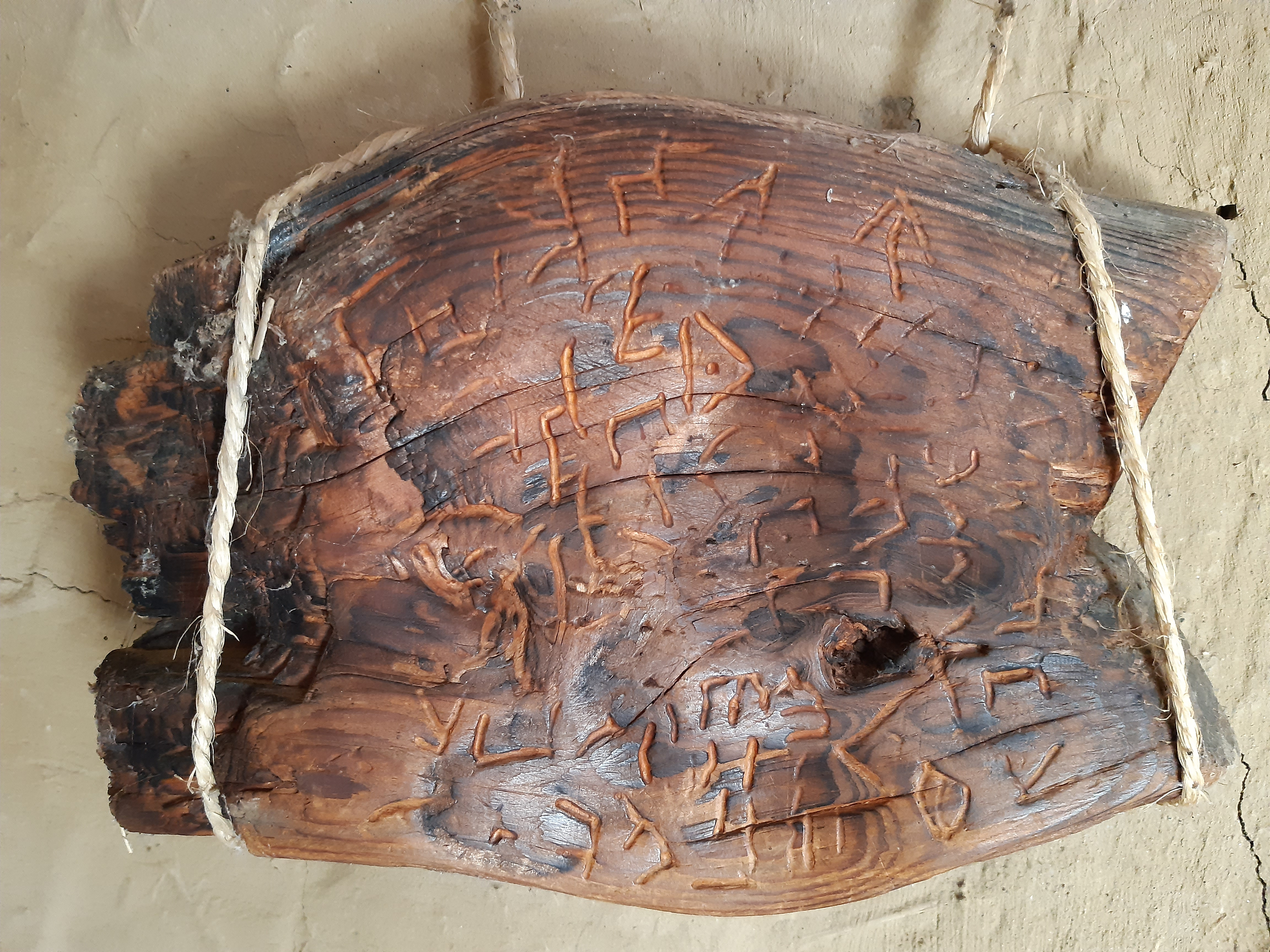 Dispilio Tablet model